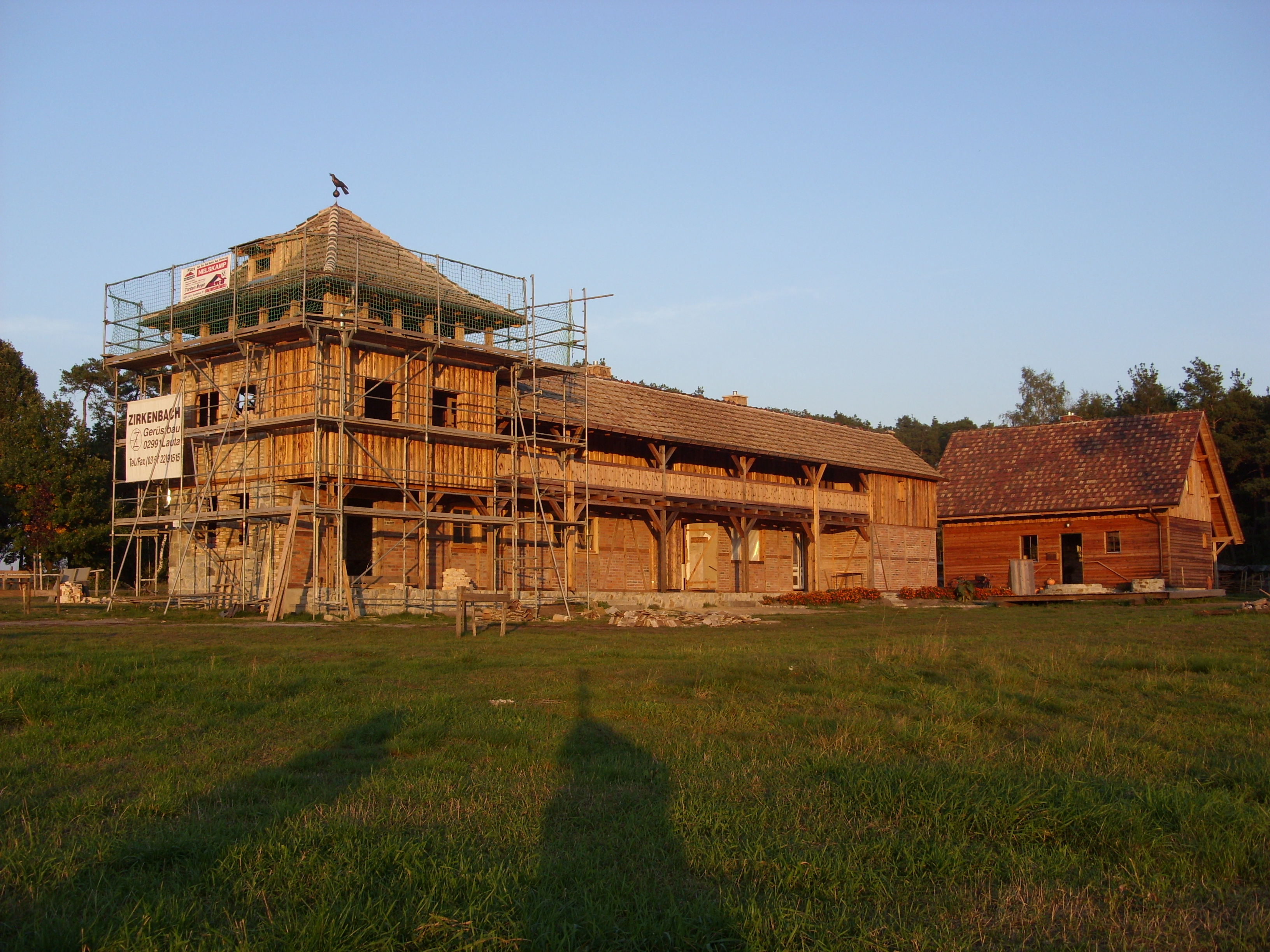 Reconstruction of the "Black mill" of the "Krabat"-Saga in Koselbruch near Schwarzkollm (work in progress).